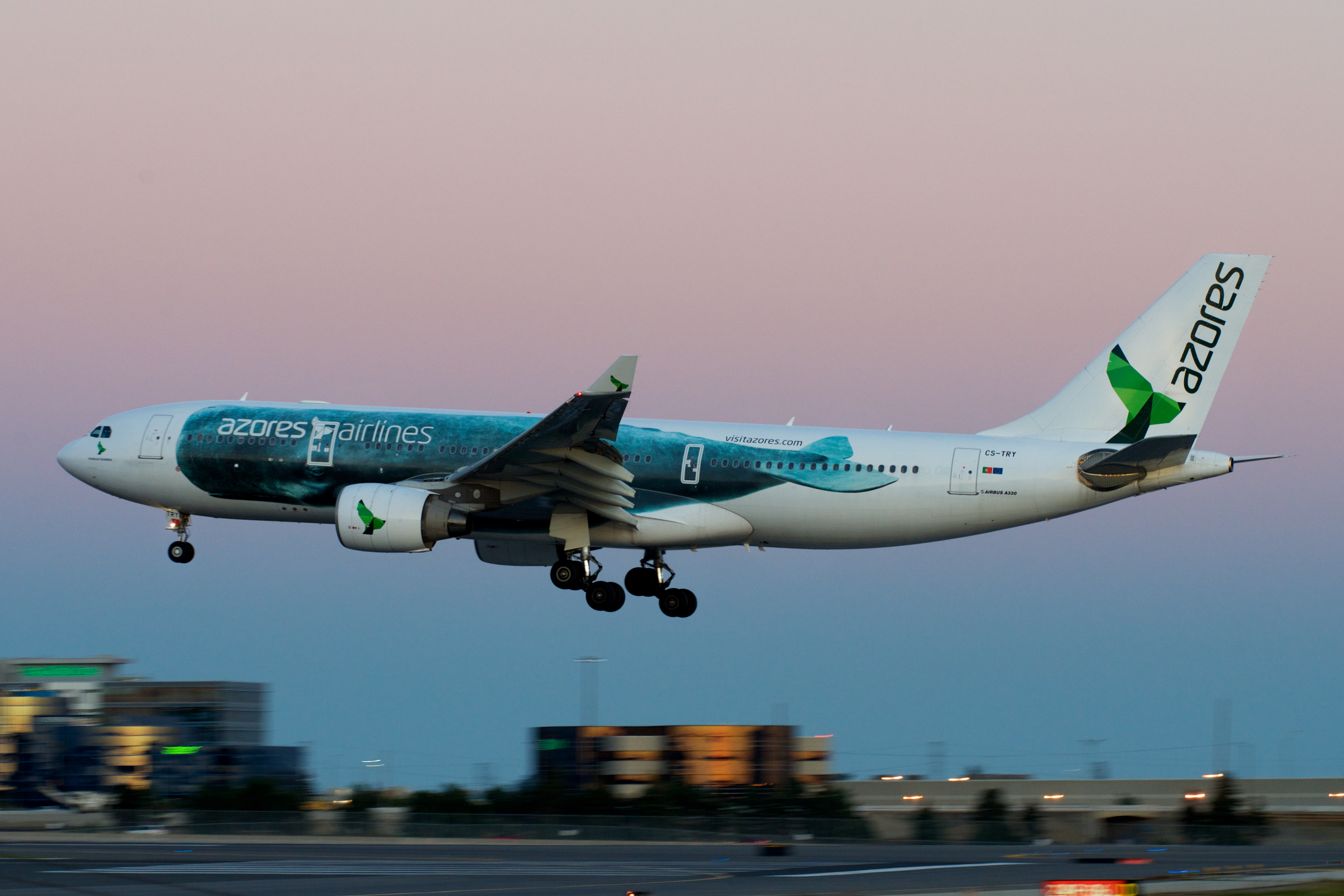 Sunset Blue Whale approach, YYZ